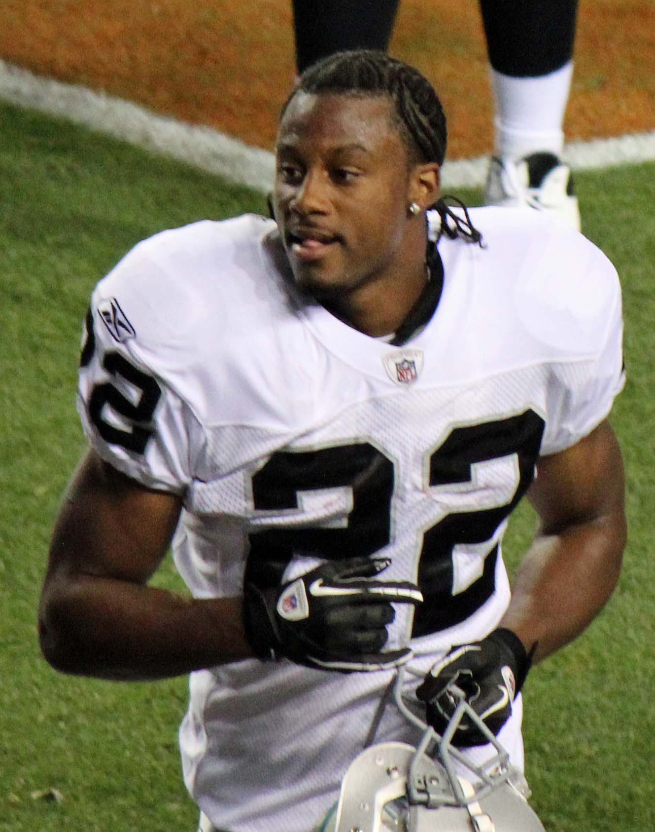 Taiwan Jones, a National Football League player.